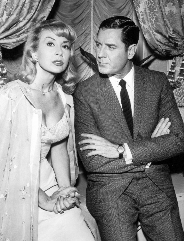 Photo of Craig Stevens as Peter Gunn and guest star Susan Cummings from the television program Peter Gunn.